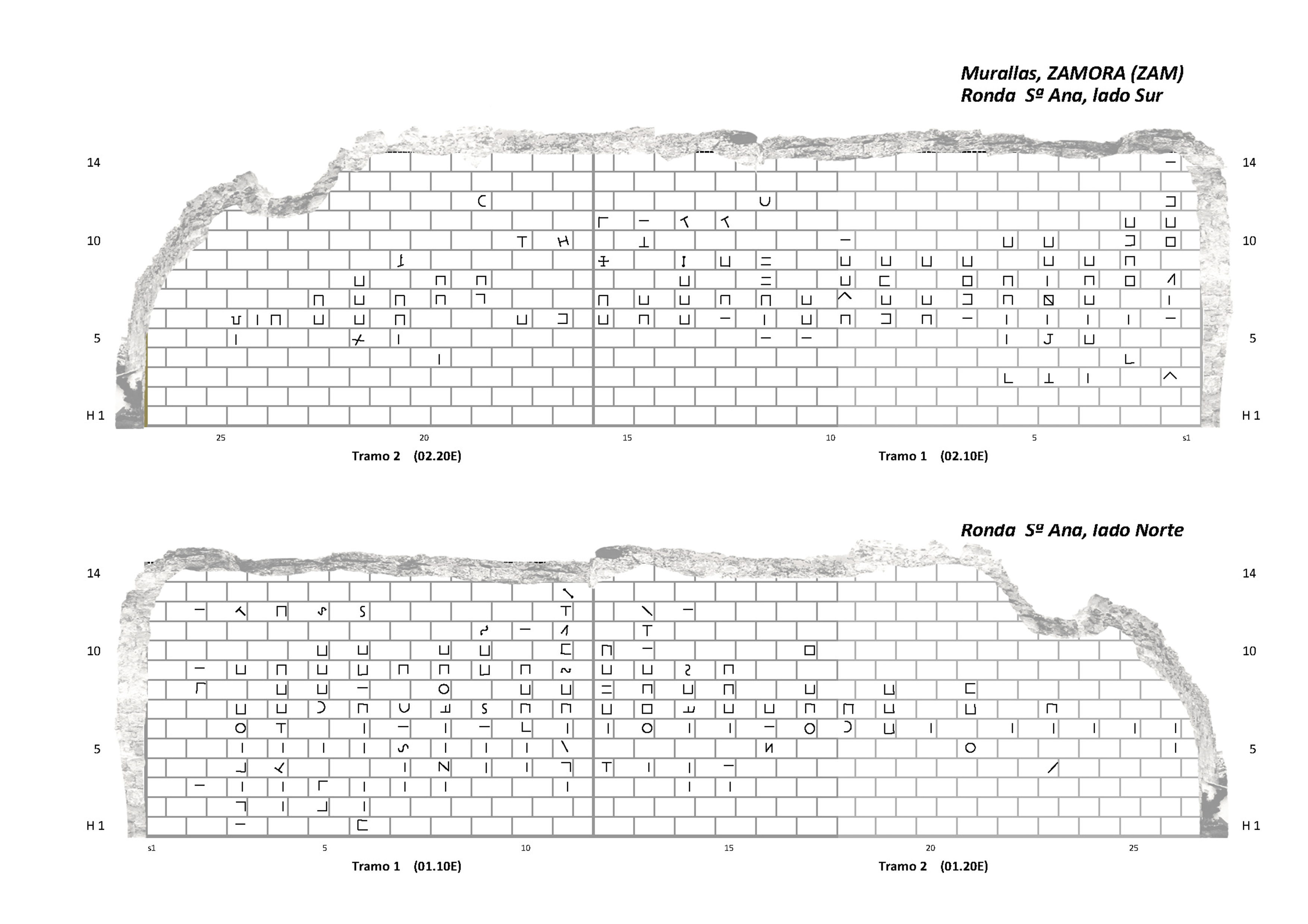 Stonecutter marks in walls of Zamora, (Zamora) Spain, romanesque s XII, XIII.